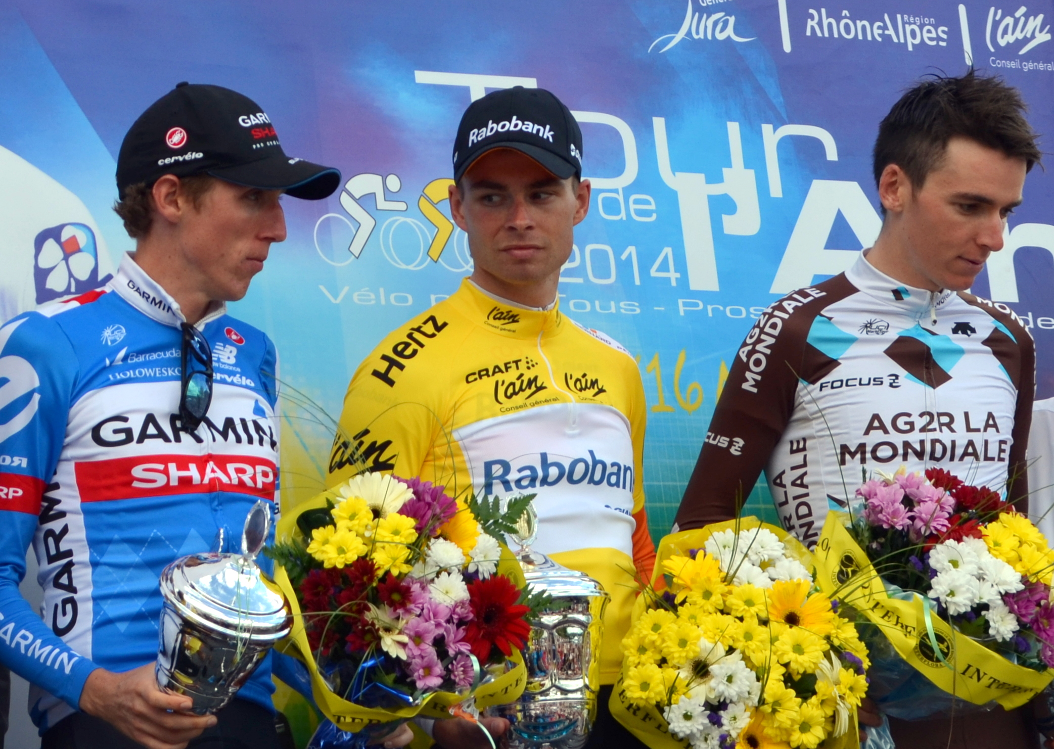 Tour de l'Ain 2014 - Stage 4 (finish, Arbent). Object location46° 16′ 46.2″ N, 5° 40′ 40.8″ E